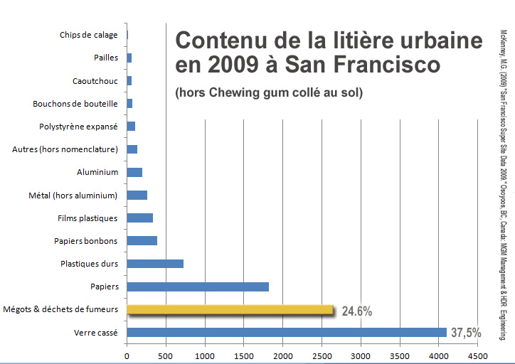 Health Economics Consulting Group LLC | Costs of Tobacco Litter in San Francisco | Page 7 of 19 source : Litter Prevalence Reported by 2009 Streets Litter Audit, City of San Francisco ; McKenney, M.G. (2009) "San Francisco Super Site Data 2009." Osoyoos, BC, Canada: MGM Management & HDR Engineering cités par Health Economics Consulting Group (2009) Cost of Tobacco Litter in San Francisco and Calculations of Maximum Permissible Per-Pack Fees . Health Economics Consulting Group. PDF, 19 pp (voir p 7/19)